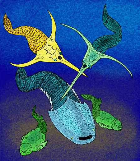 The galeaspids Asiaspis expansa, Lungmenshenaspis kiangyouensis, and Bannhuanaspis vukhuci, and a pair of Yunnanolepis antiarch placoderms, from the Early Devonian of China. (C) Stanton F. Fink